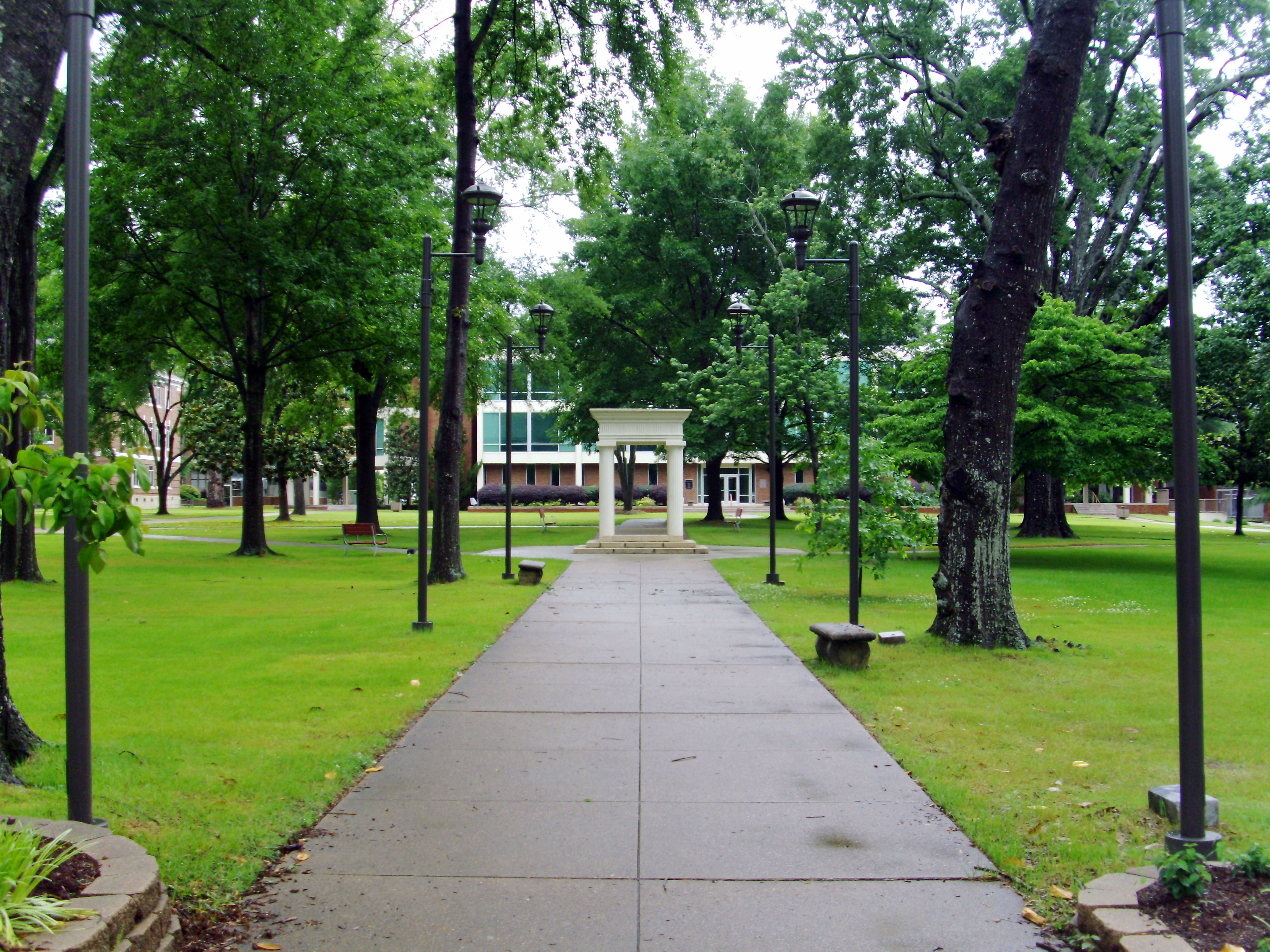 Campus of Henderson State University in Arkadelphia, AR